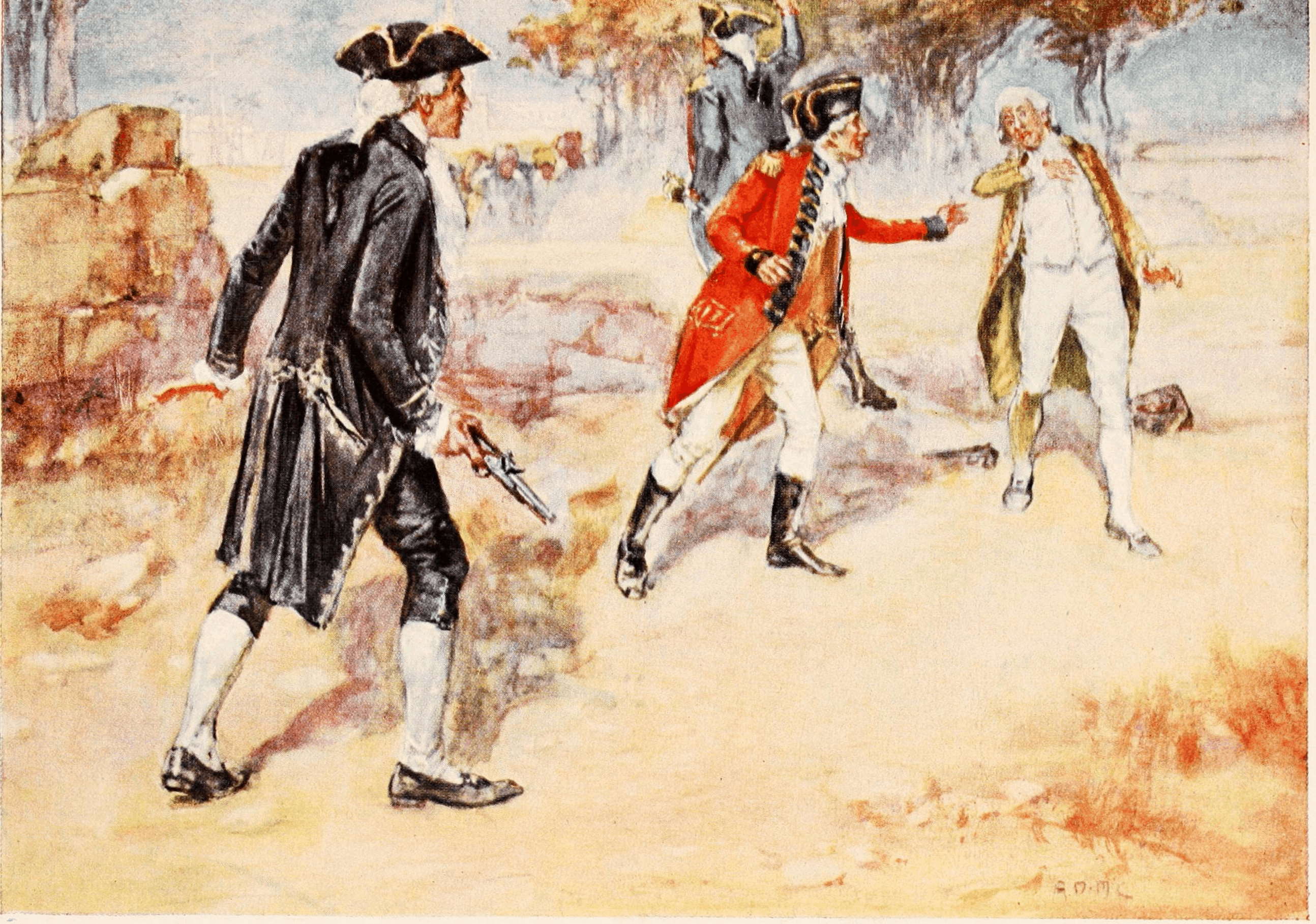 Romance of Empire India